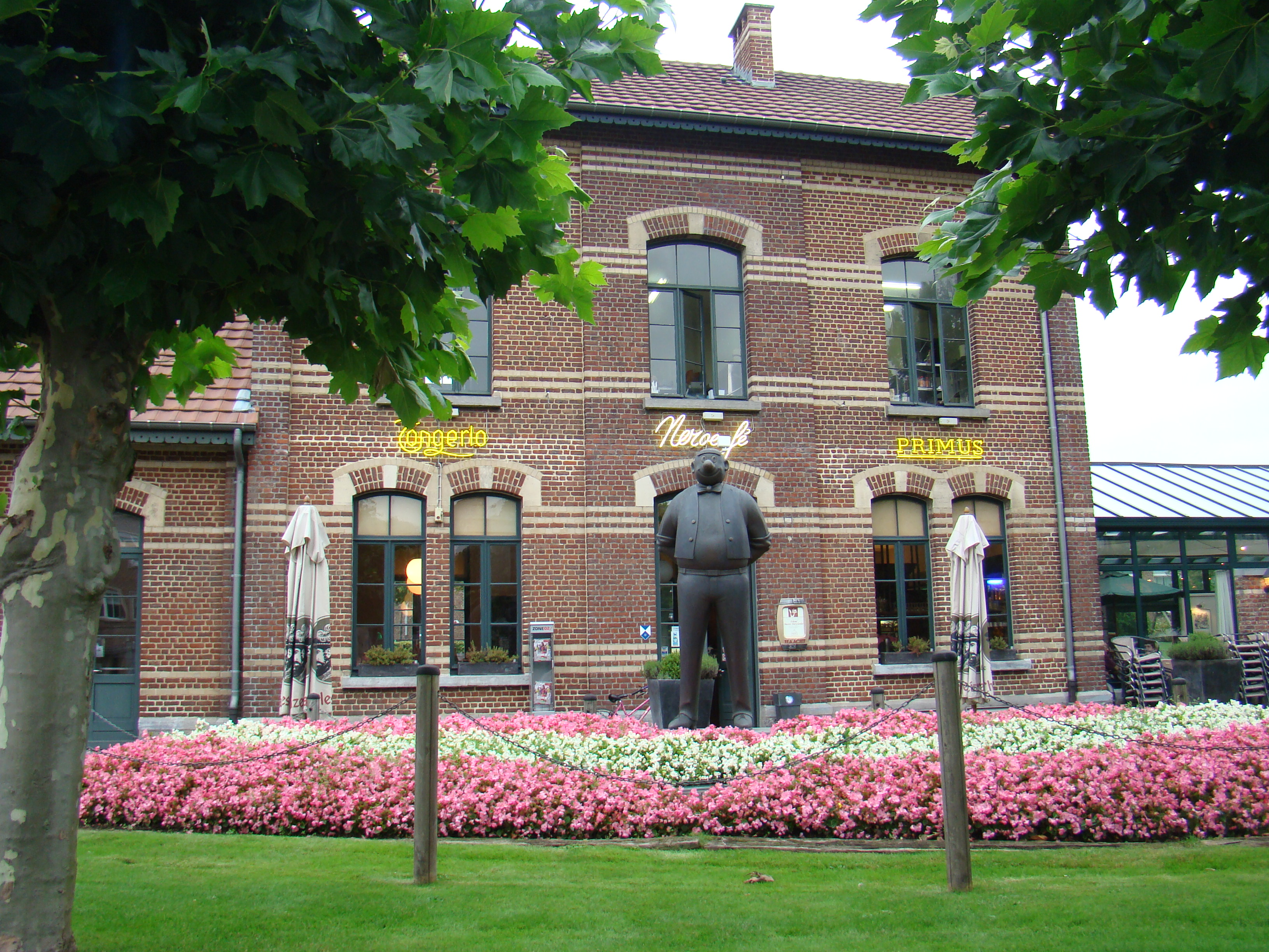 Hoeilaart (Flemish Brabant, Belgium)